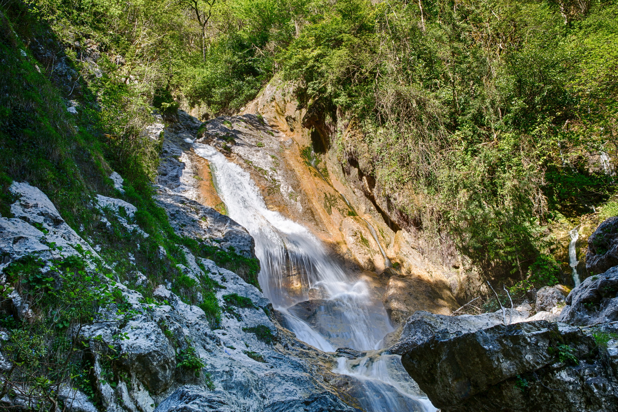 Ochkhomuri Waterfall Natural Monument Attraction: The natural monument is a 100-120 m high waterfall, formed at an altitude of 469 m above sea level on Migaria limestone massif, at the source of Ochkhomuri River. At first the waterfall flows from the slope of the southern exposure, then in the midle it turns into south-eastern exposure, whereas the last part flows from the southern exposure. Each step of the waterfall creates small lakes after touching the ground. At first the waterfall looks like a solid column from afar. The excessive humidity around the waterfall gives way to peculiar flora and fauna. You can find abundance of rare, endemic or relict species here. There is significant presence of stands of large box-trees.